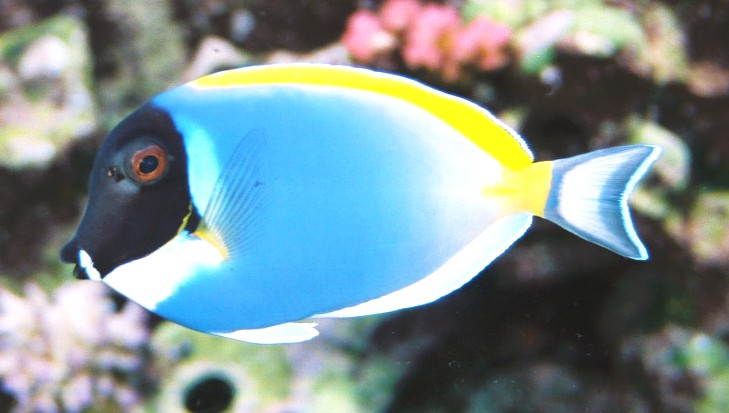 Powderblue surgeonfish, Acanthurus leucosternon.